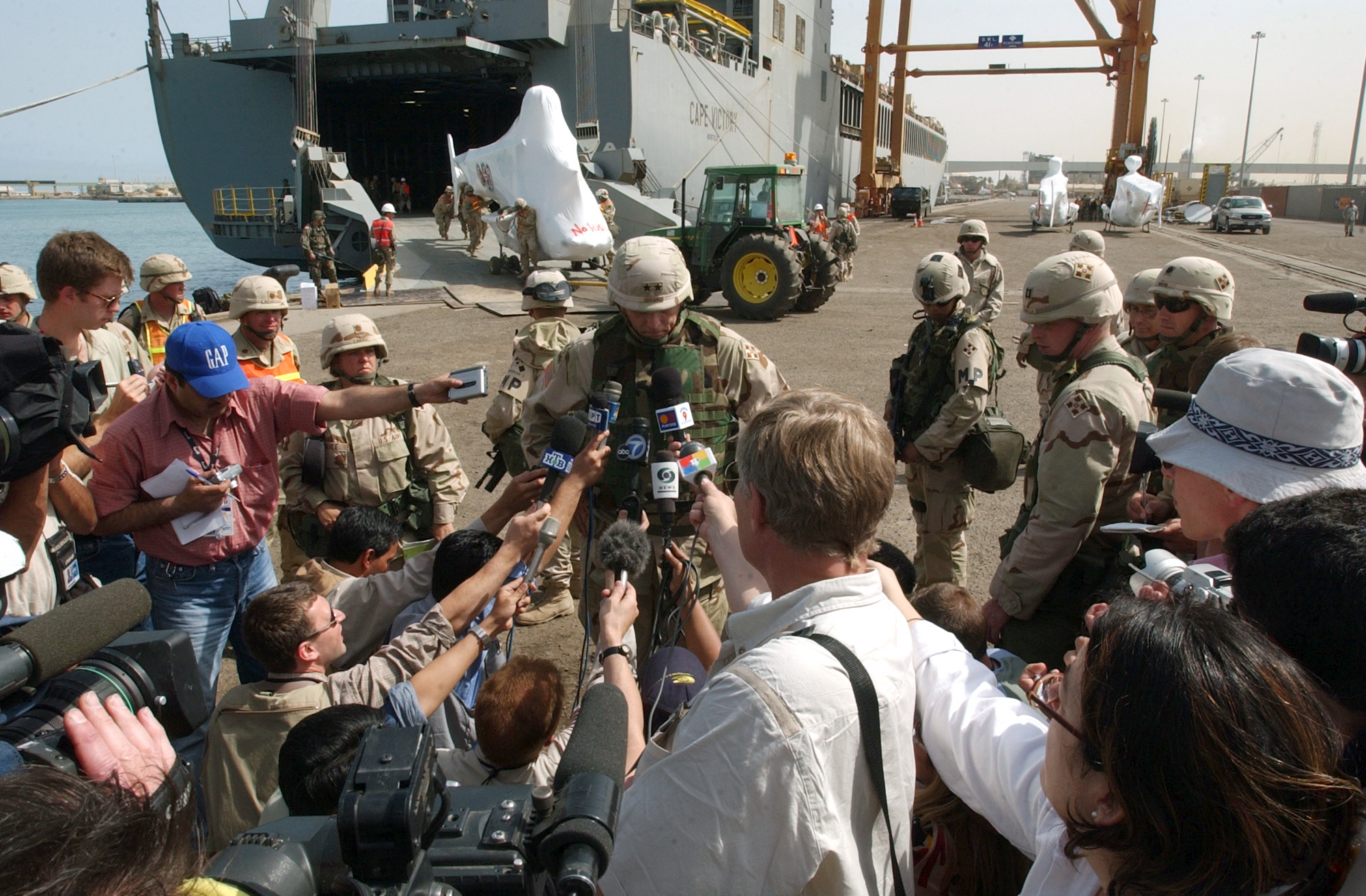 Port Shuaiba, Kuwait (April 03, 2003) - - Major General Raymond T. Odierno from the 4th Infantry Division speaks to the international media during the arrival of armor and equipment to a port of Shuaiba, Kuwait. The 4th Infantry Division is the Army's most modern digitized division, and is deployed in support of Operation Iraqi Freedom. U.S. Navy photo by Photographer's Mate 1st Class Arlo K. Abrahamson.